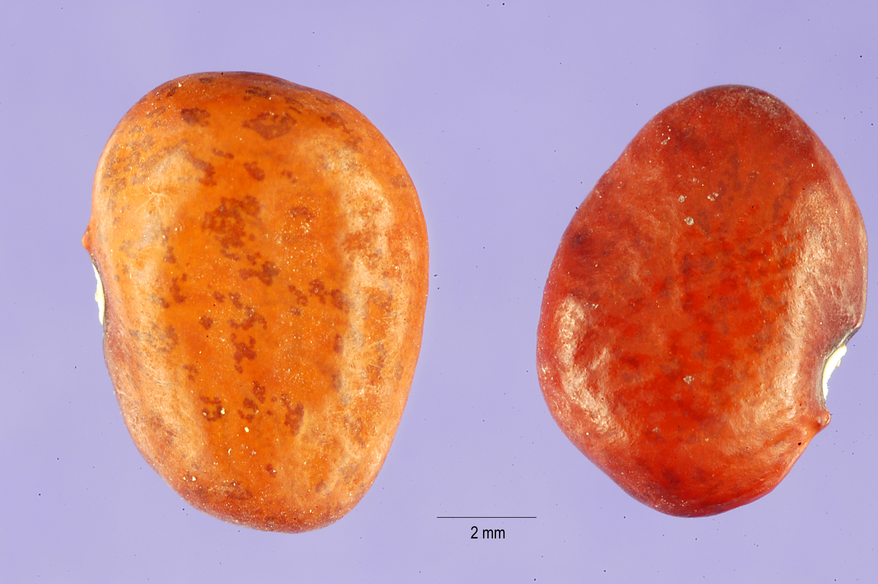 seeds of Phaseolus acutifolius by Tracey Slotta. Provided by ARS Systematic Botany and Mycology Laboratory, USDA.